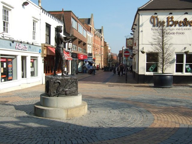 Maidenhead High St. The Western end is pedestrianized. In the foreground is a sculpture called "Maidenhead Boy", and beyond "The Brewers" pub, and further away the Post Office (left) and Cresset Towers ( right, see also 122682 )